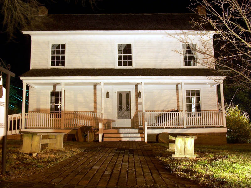 Isaiah Wilson Snugs House, 112 N. Third St. Albemarle